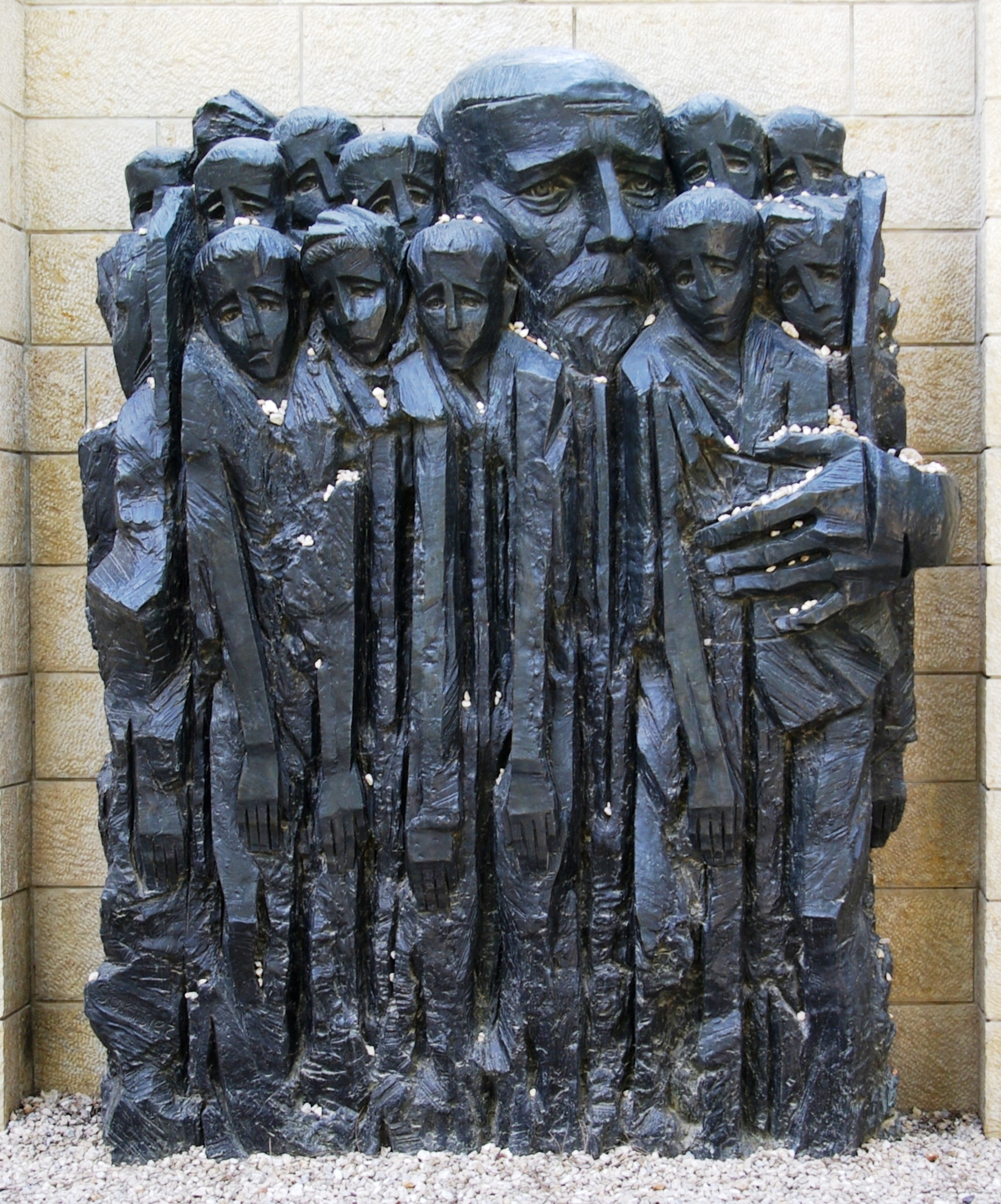 Jerusalem, Yad Vashem, Janusz Korczak Memorial by Boris Saktsier